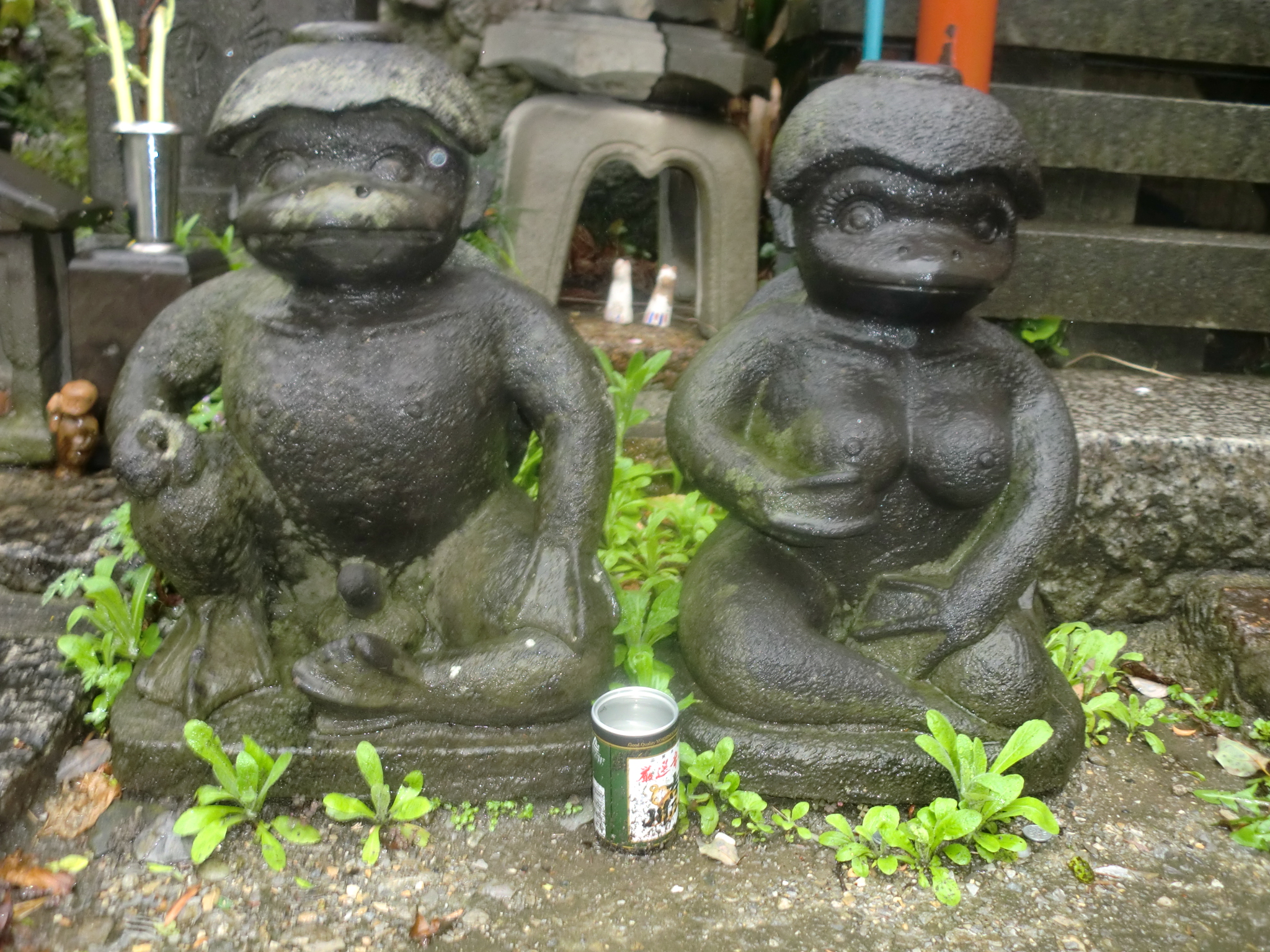 Statues of male and female kappa at Sougenji-Kappa-Dera-Temple, Tokyo, Japan